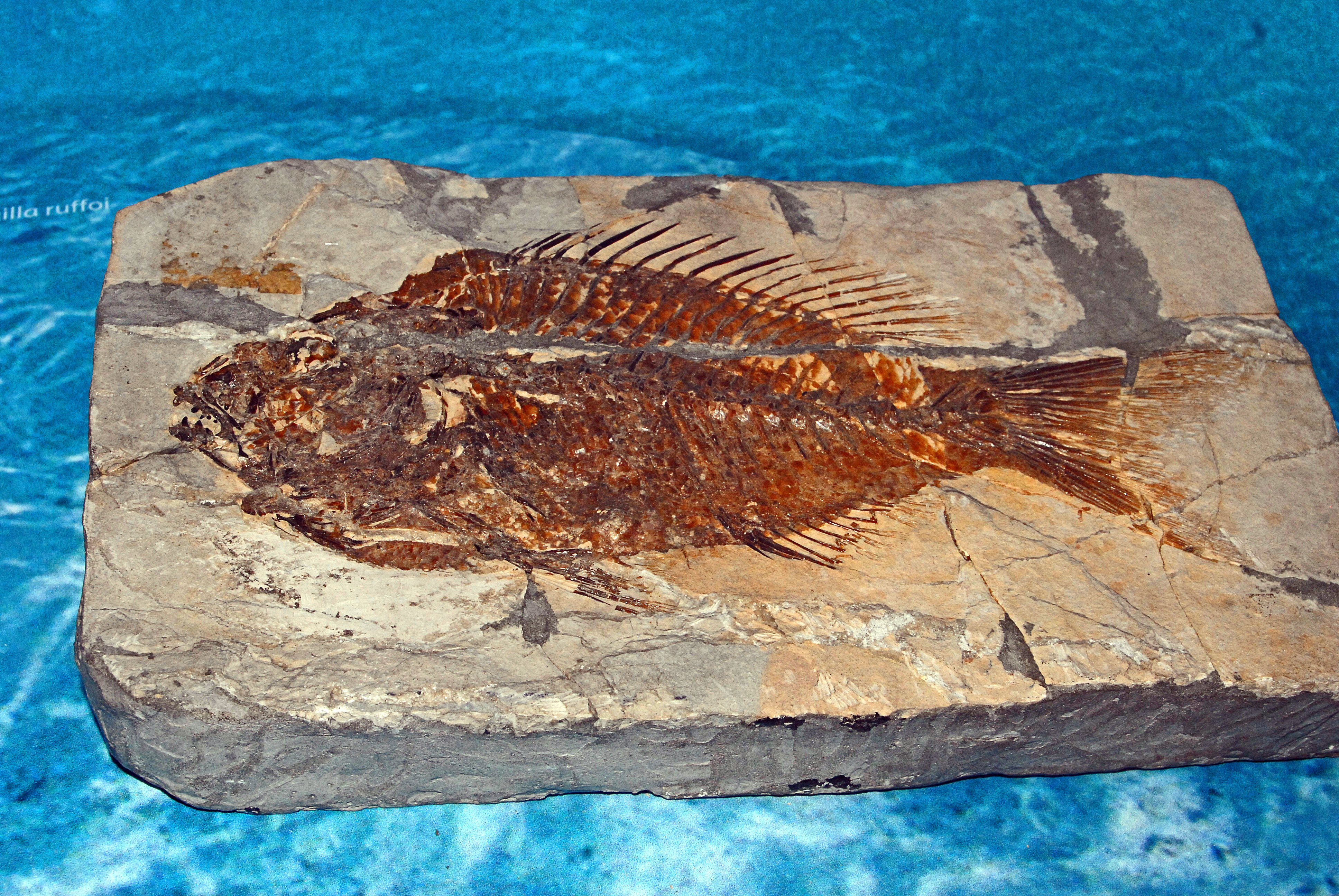 Sparnodus vulgaris